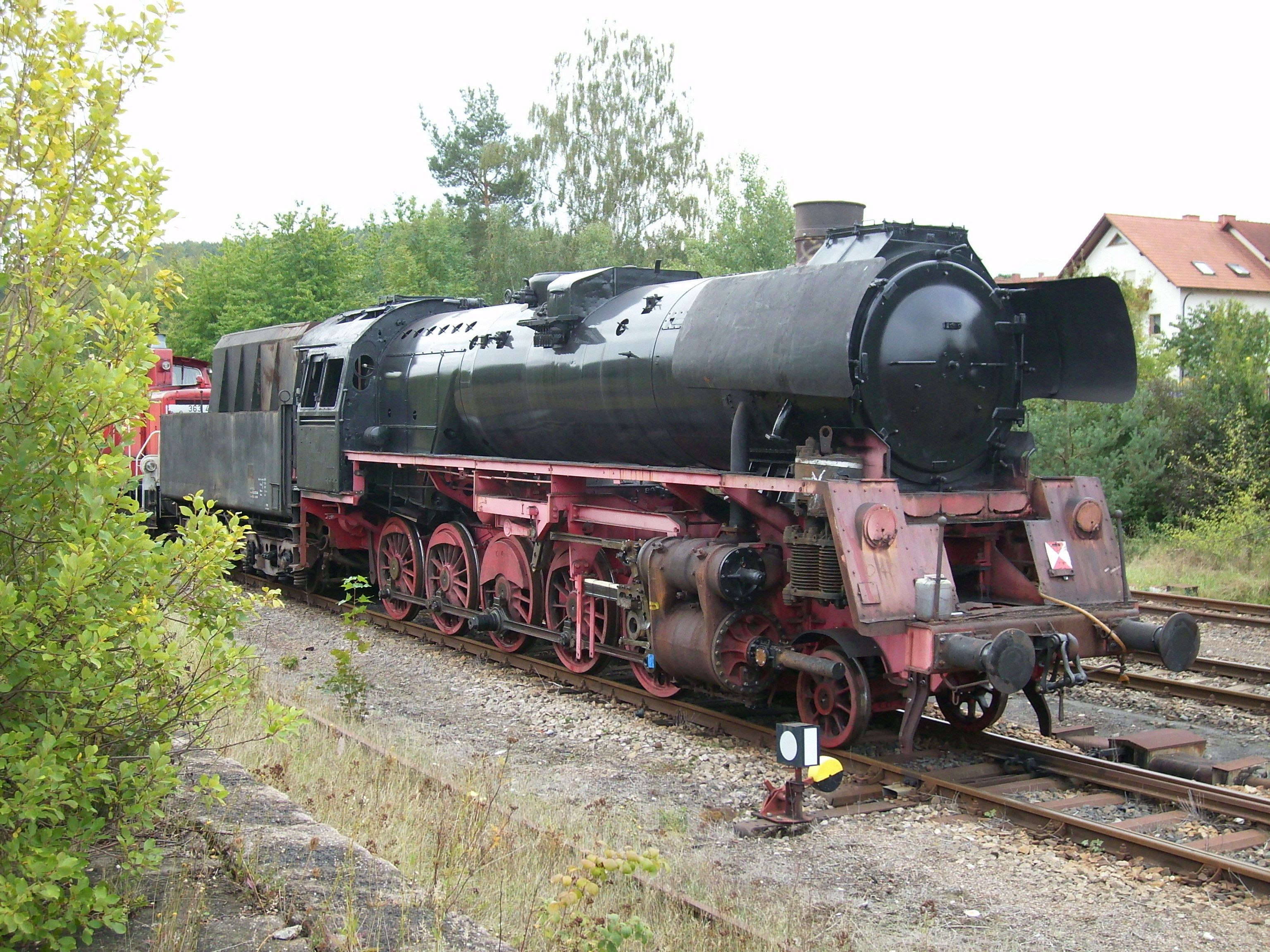 DR 50 4073 at Immelborn